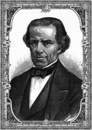 Self-portrait of Melchor Ocampo, Lithograph (1870-1907).